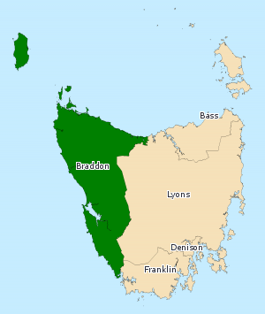 This image incorporates data that is: © Commonwealth of Australia (Australian Electoral Commission) 2009 Division of Braddon 2010